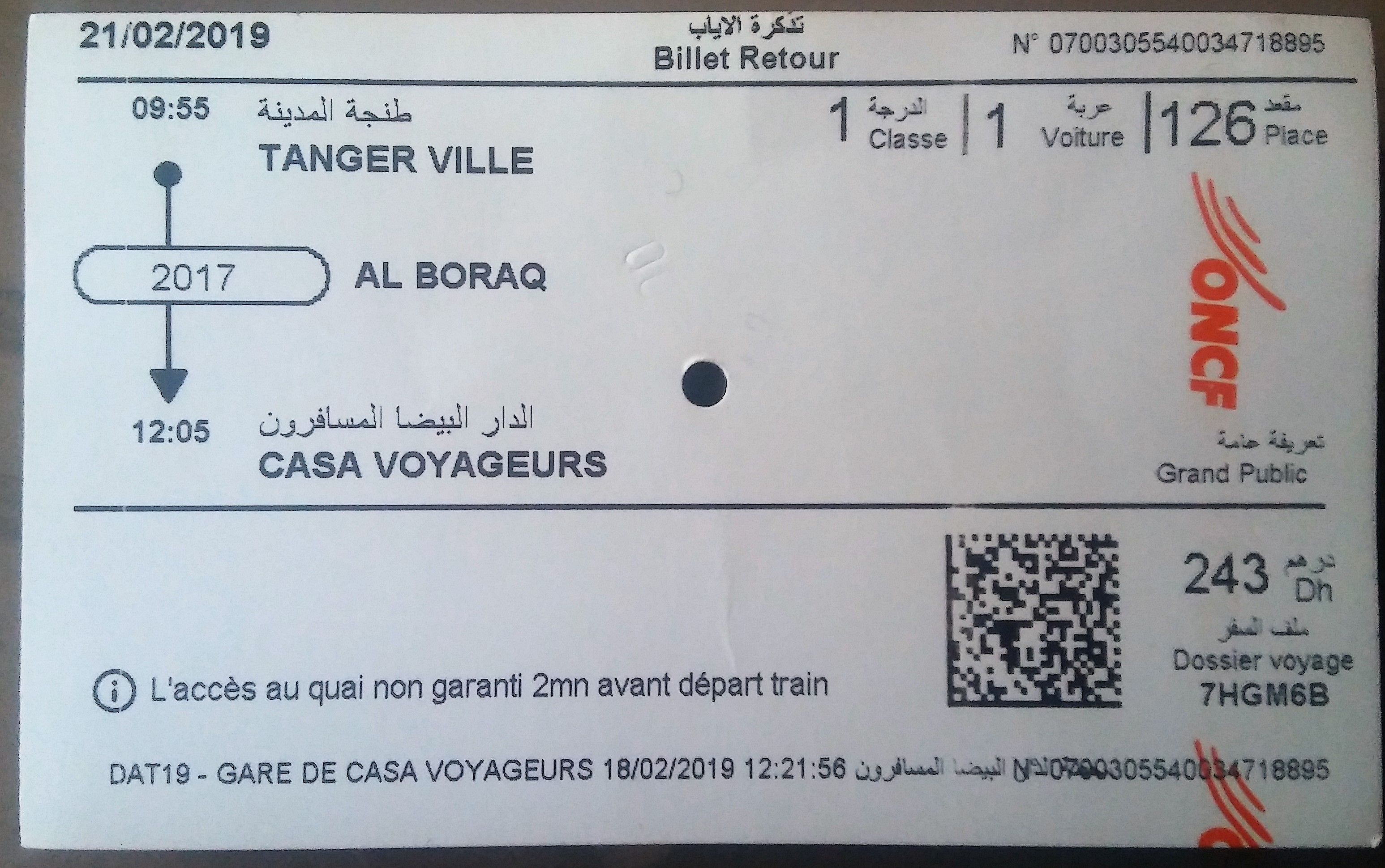 Train ticket for the express train Al Boraq (The Lightning). Route: Tangier - Casablanca.